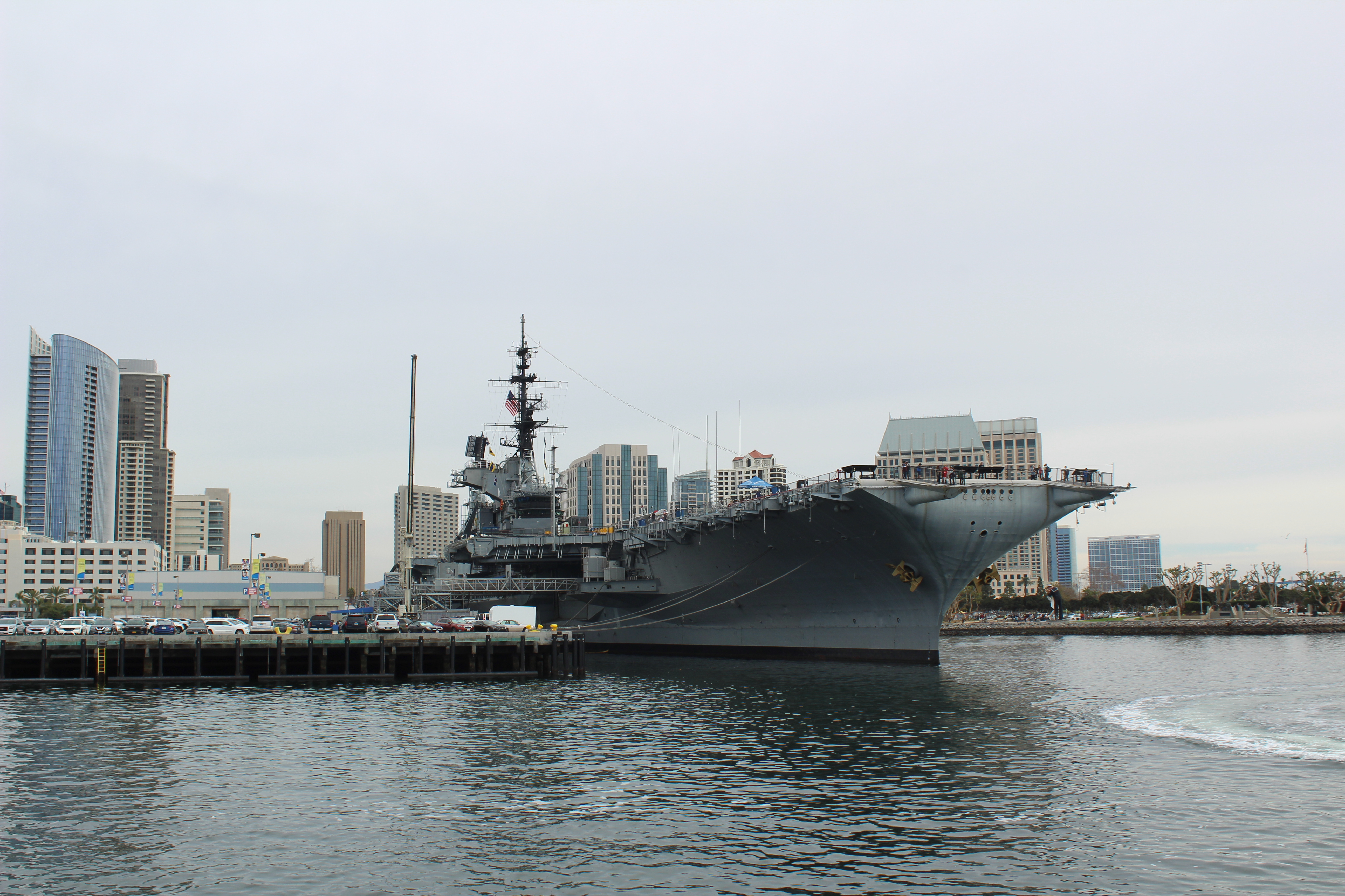 USS Midway, from passenger ferry